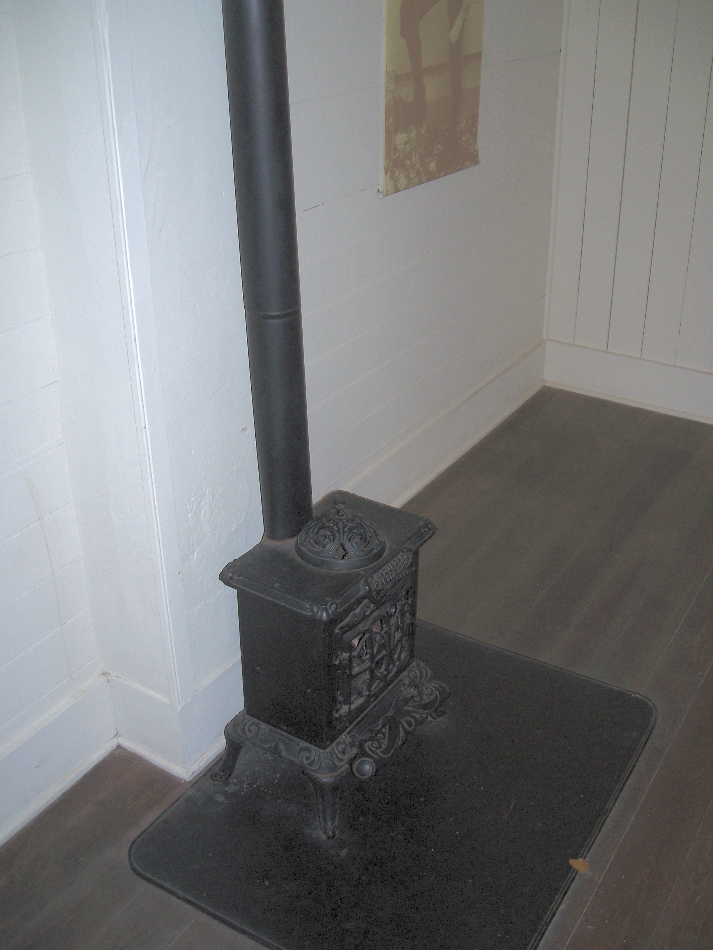 Heater of some kind in the Thursby House in Blue Spring State Park, near Orange City, Florida